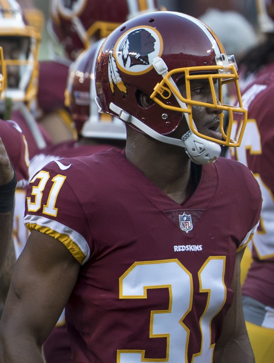 Washington Redskins cornerback, Fabian Moreau, in a preseason game against the Green Bay Packers on August 19, 2017.